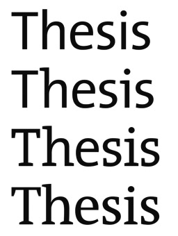 Typeface: Thesis from Lucas de Groot